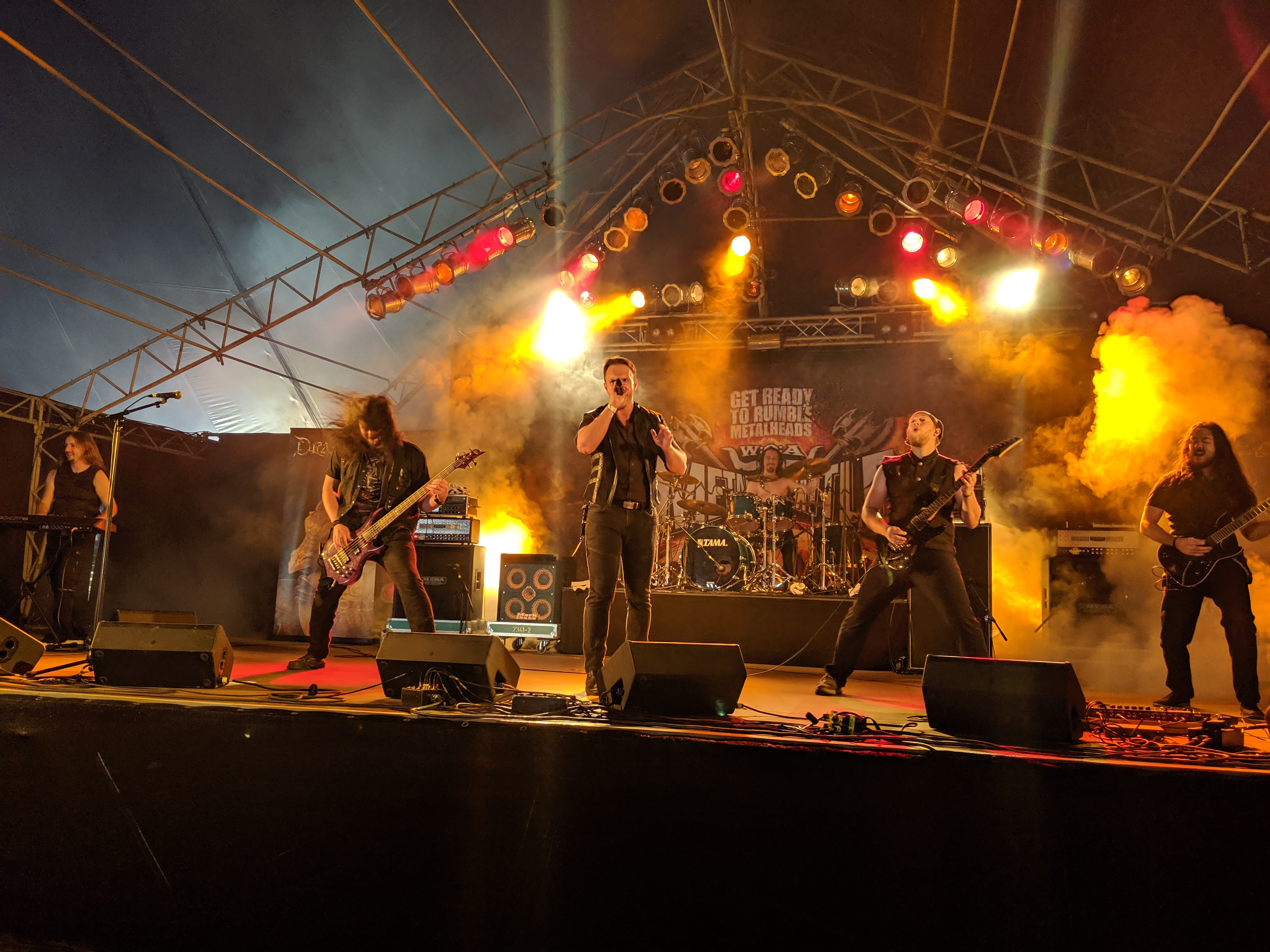 Dragony on History stage at Wacken Open Air 2019